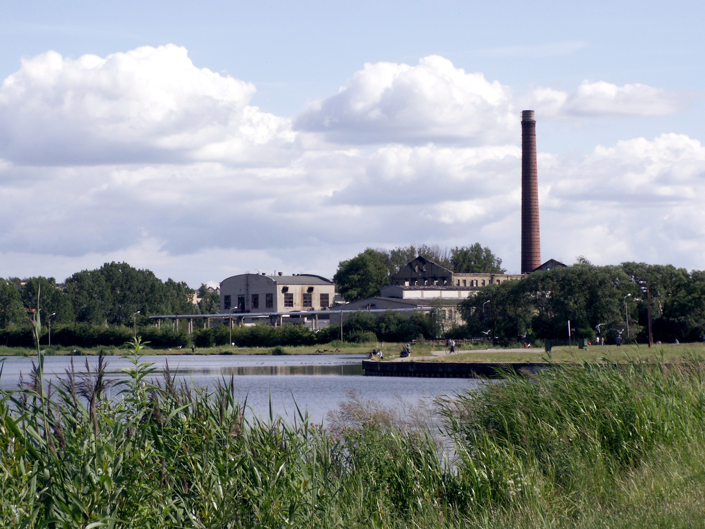 Former Chaimas Frenkelis tannery in Šiauliai from lake Talša